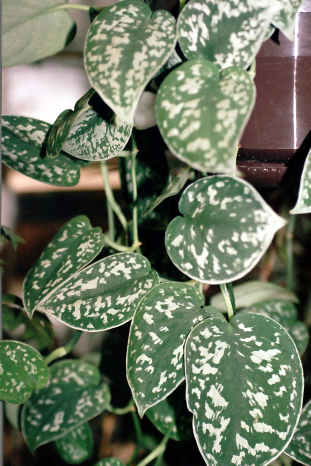 Scindapsus pictus var. argyreus